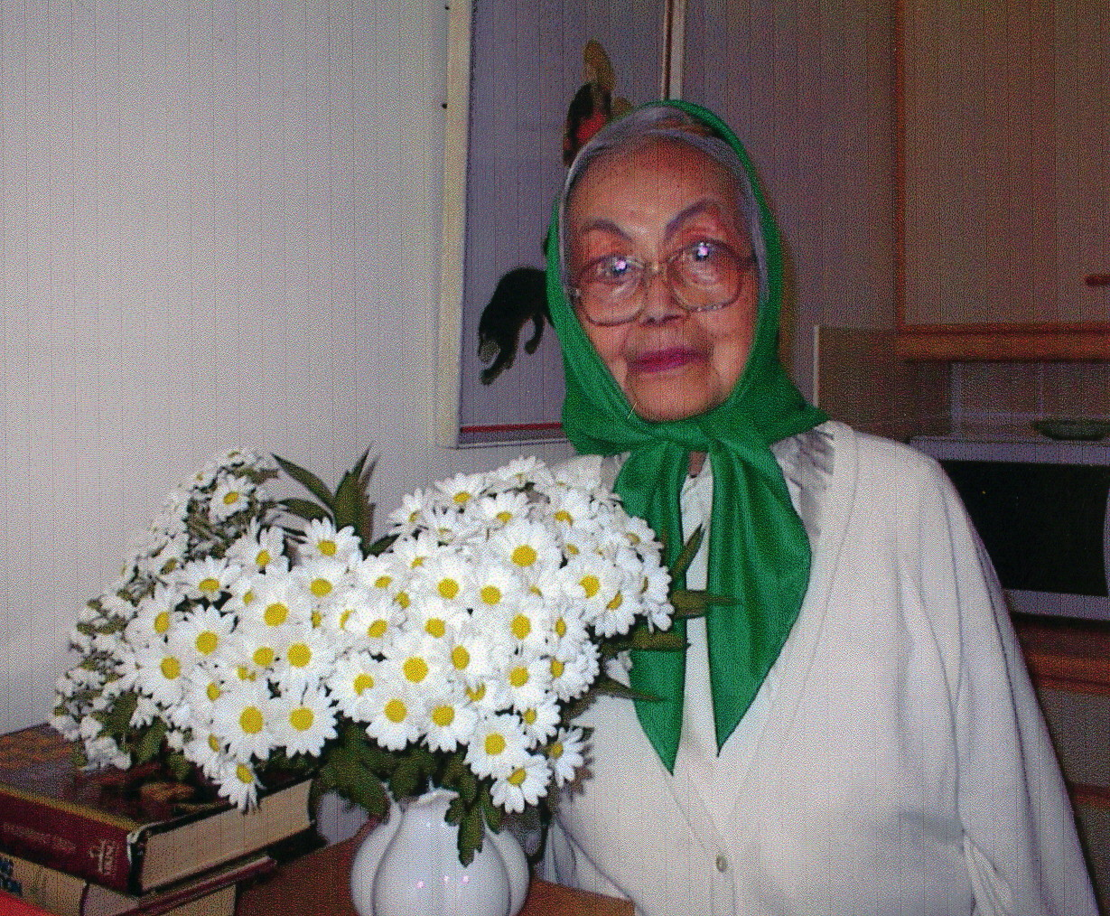 Ma Than E at the Assisted Living at Oxford, UK in 2002